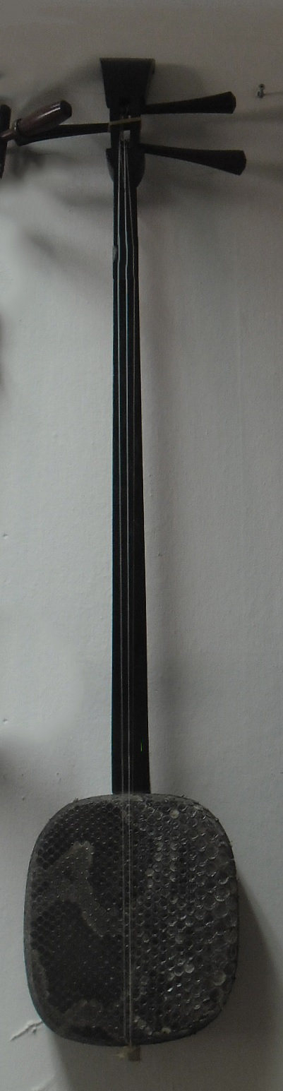 Photo taken in a musical instrument shop. Đàn tam - a three-stringed fretless plucked Vietnamese musical instrument